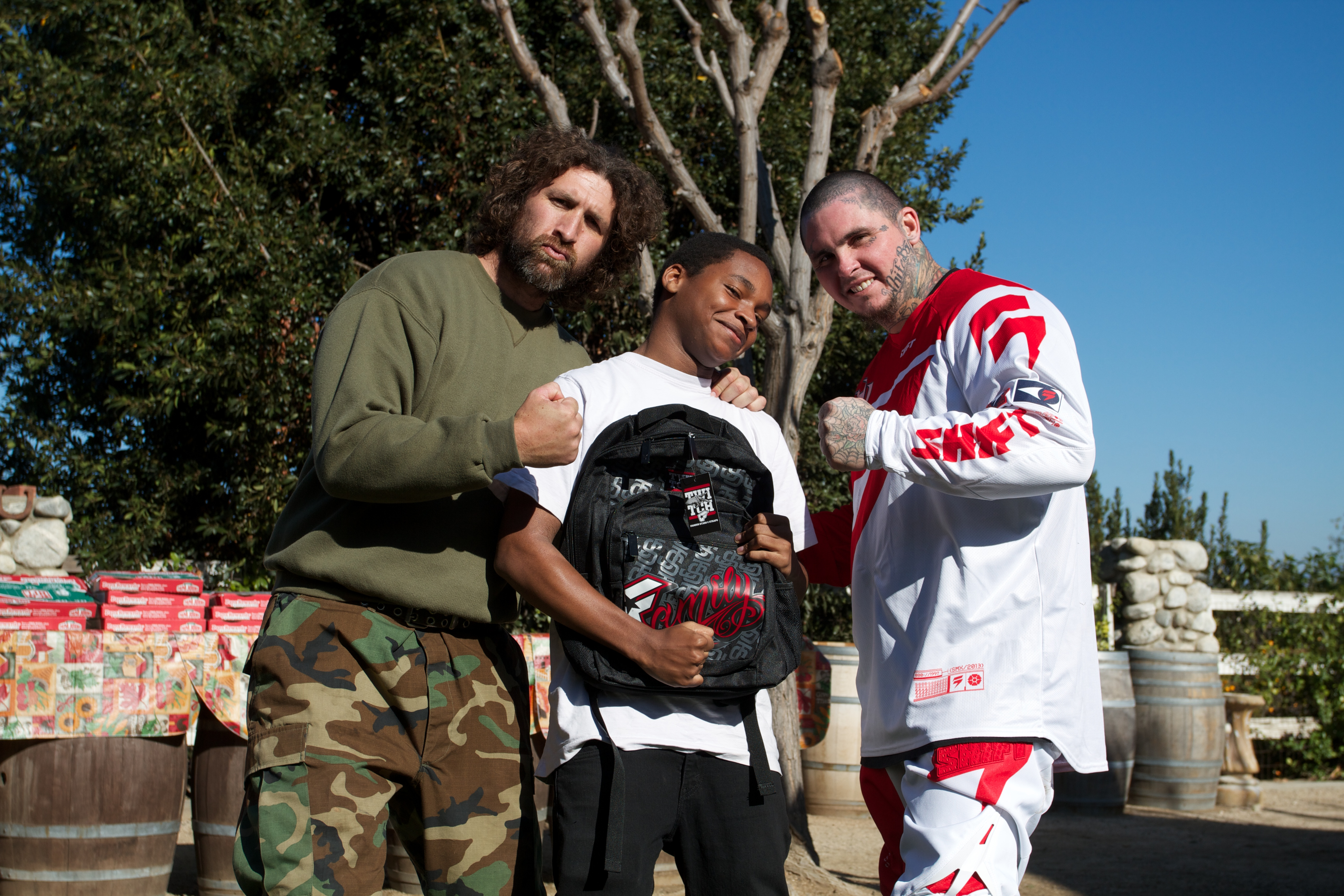 Larry Linkogle during community outreach program in 2012.